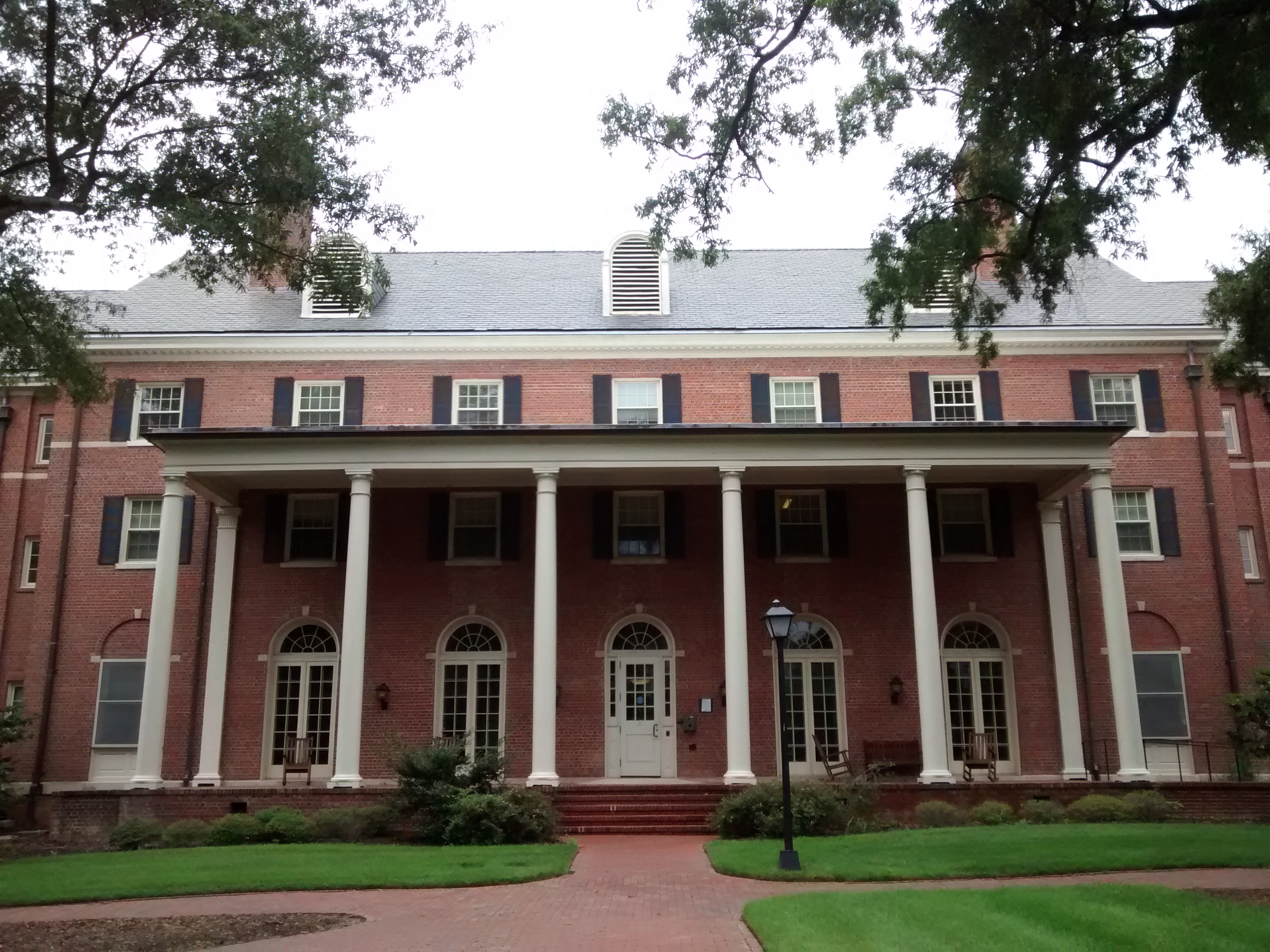 Alderman Residence Hall at the University of North Carolina at Chapel Hill.